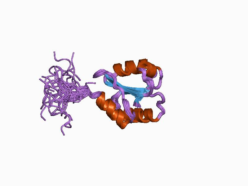 Cartoon representation of the molecular structure of protein registered with 1bjx code.